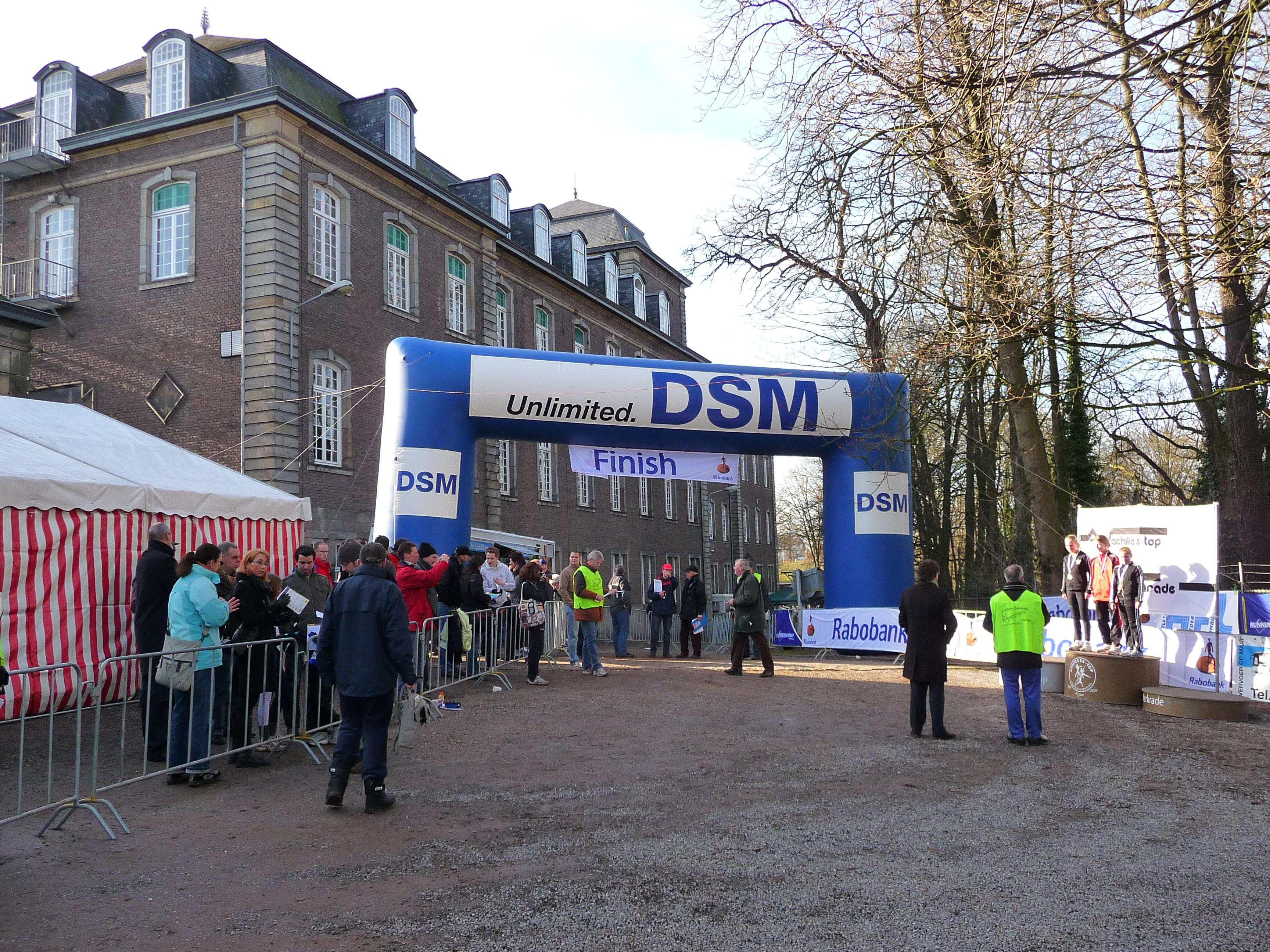 Finish en ceremony of the Abdijcross in Kerkrade